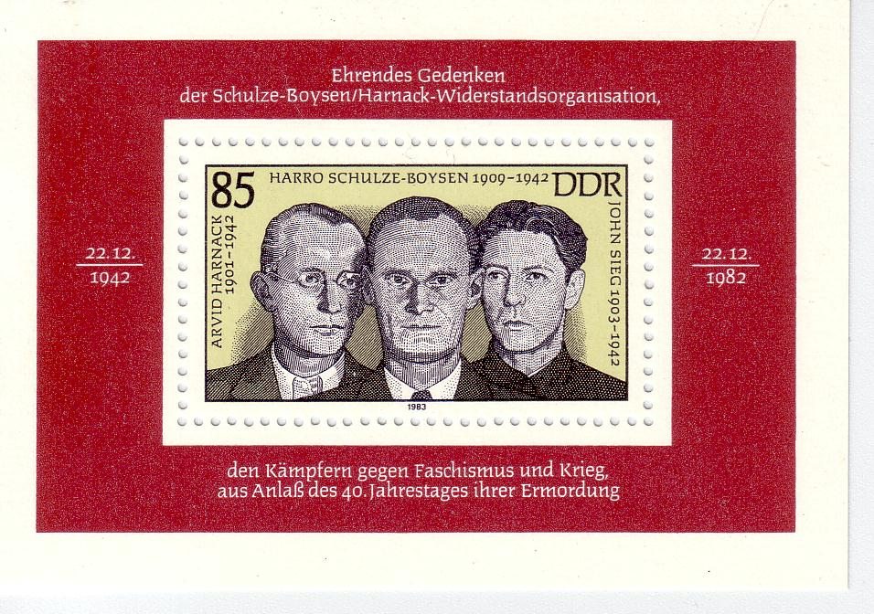 Postage stamp of Arvid Harnack, Harro Schulze-Boysen and John Sieg, leaders of the Rote Kapelle; from the GDR, 1983